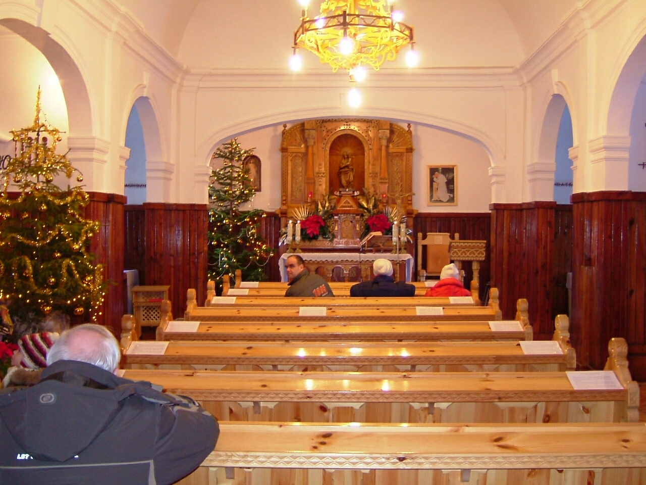 Ksieżówka, Zakopane, Poland 2004 or 2005